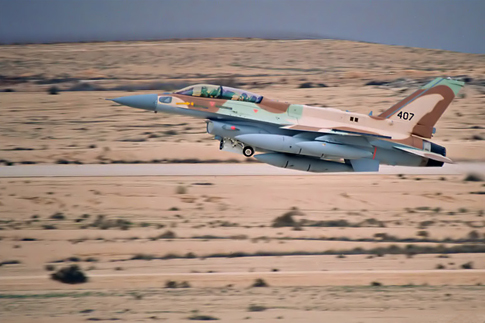 IAF F-16I "Sufa"